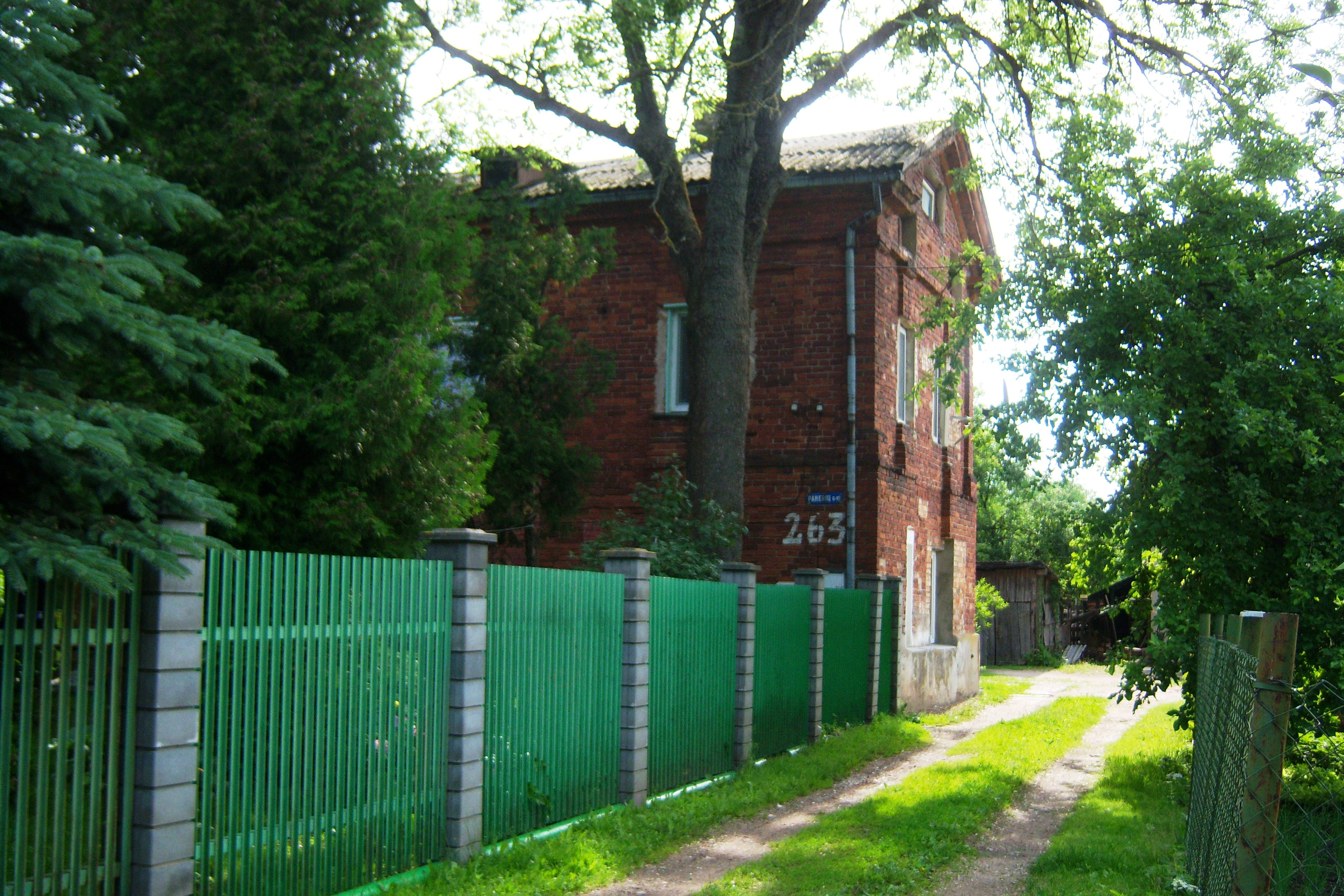 Former Sargėnai manor in Šilainiai, Kaunas. Lithuania